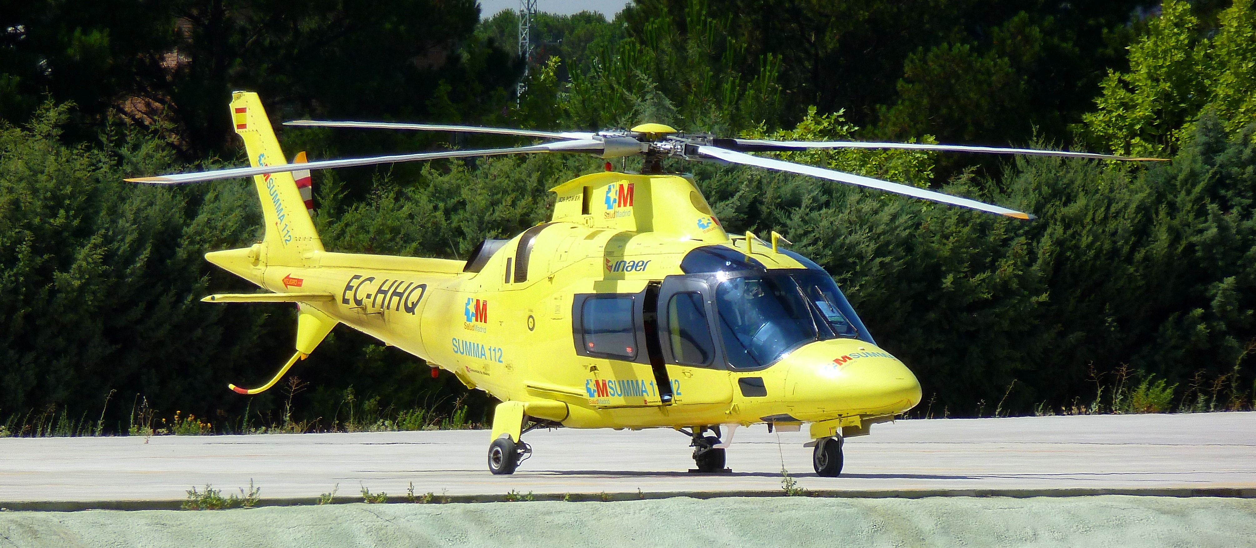 Helicopter Agusta A-109E Power of the SUMMA 112 (medical urgencies) of the Community of Madrid, Spain.